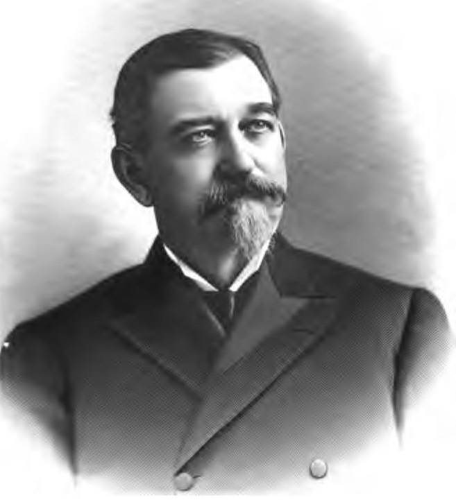 Marcus H. Holcomb (Connecticut Governor)